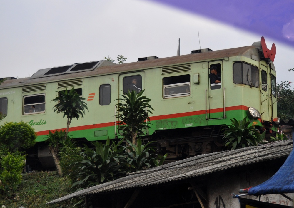 Diesel multiple unit of Bumi Geulis from Indonesia